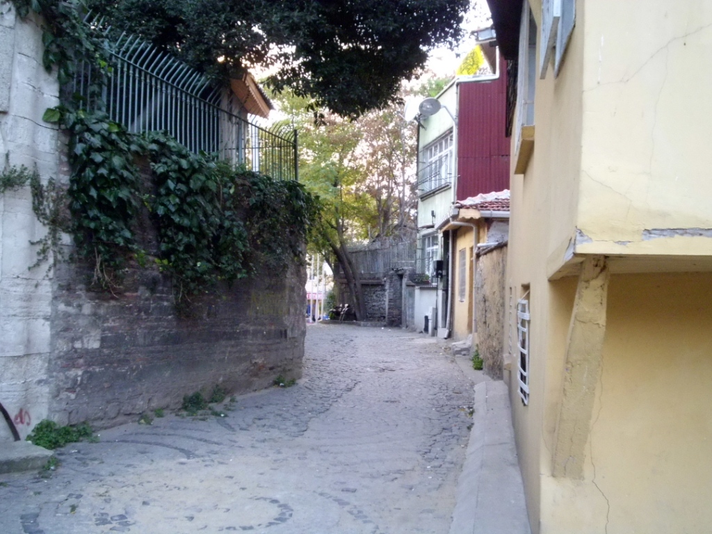 karagümrük